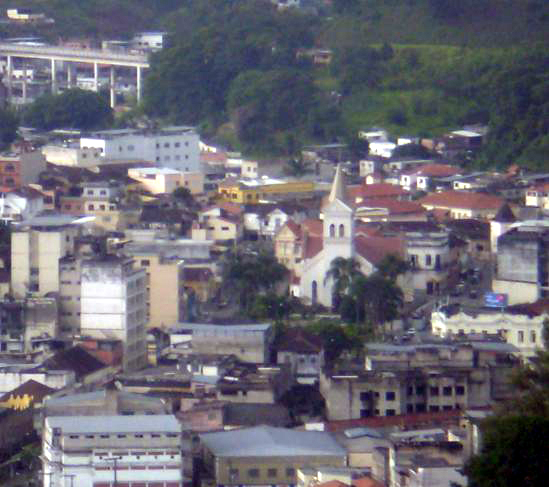 Picture of Santos Dumont/MG